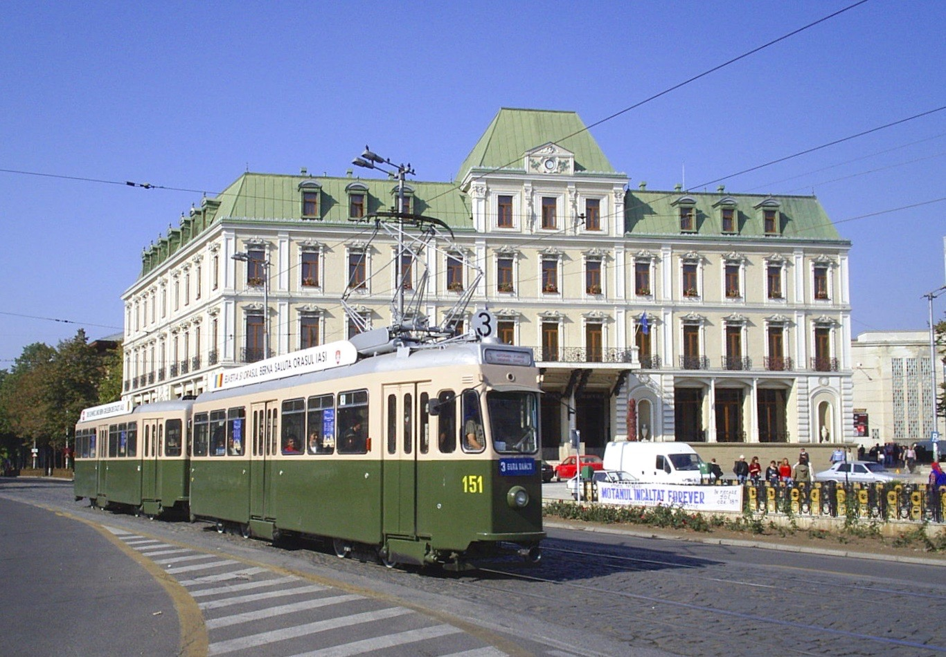 An ex-Bern tram set (motor tram + trailer) of "Swiss Standard Tram" cars in Iasi, Romania, eastbound on route 3 at Piața Unirii (Union Square) with the 1882-built Grand Hotel Traian in the background. Tramcar 151 is ex-Bern 625, built in 1961 by SWS.